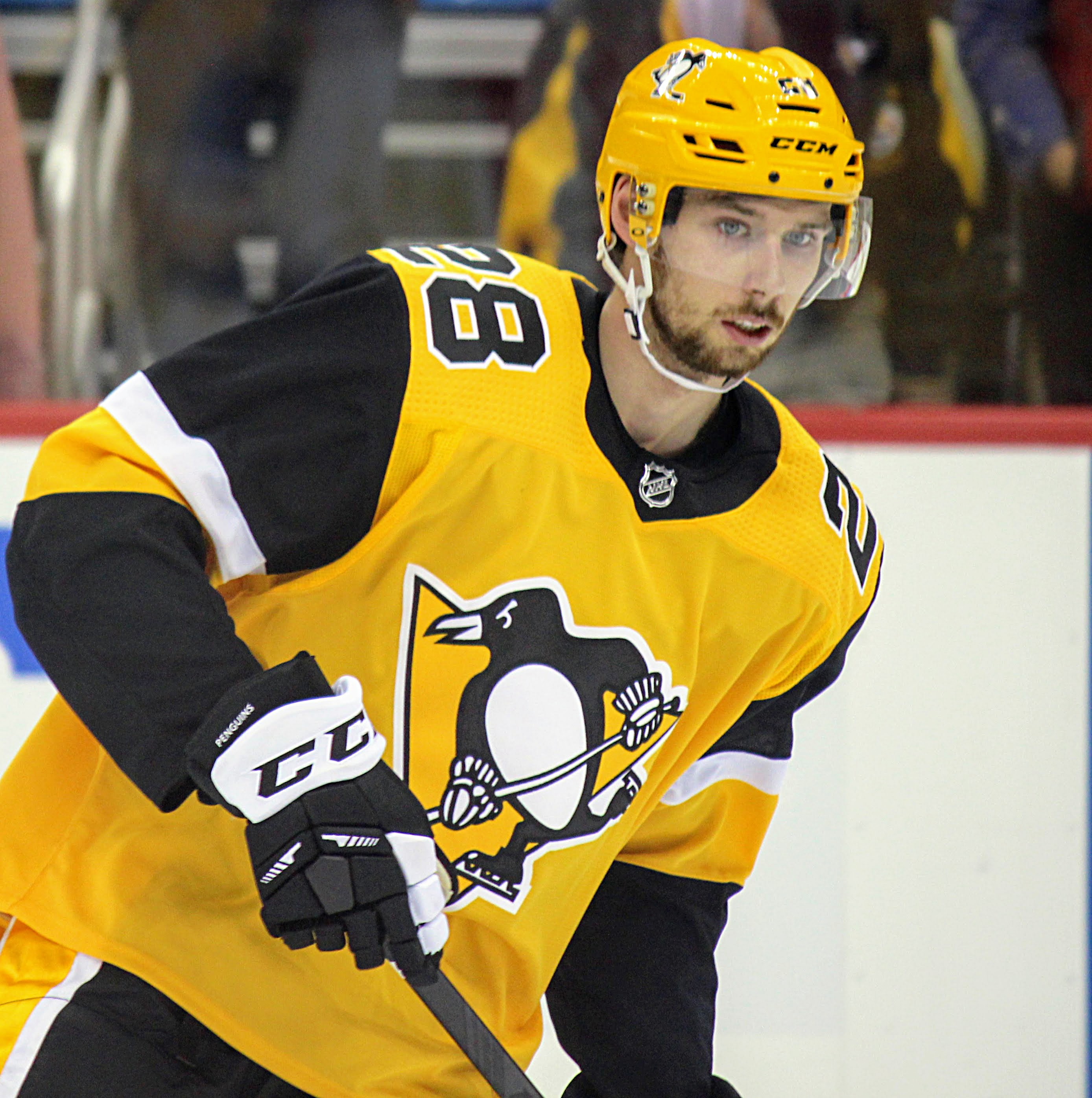 Pittsburgh Penguins defenseman Marcus Pettersson